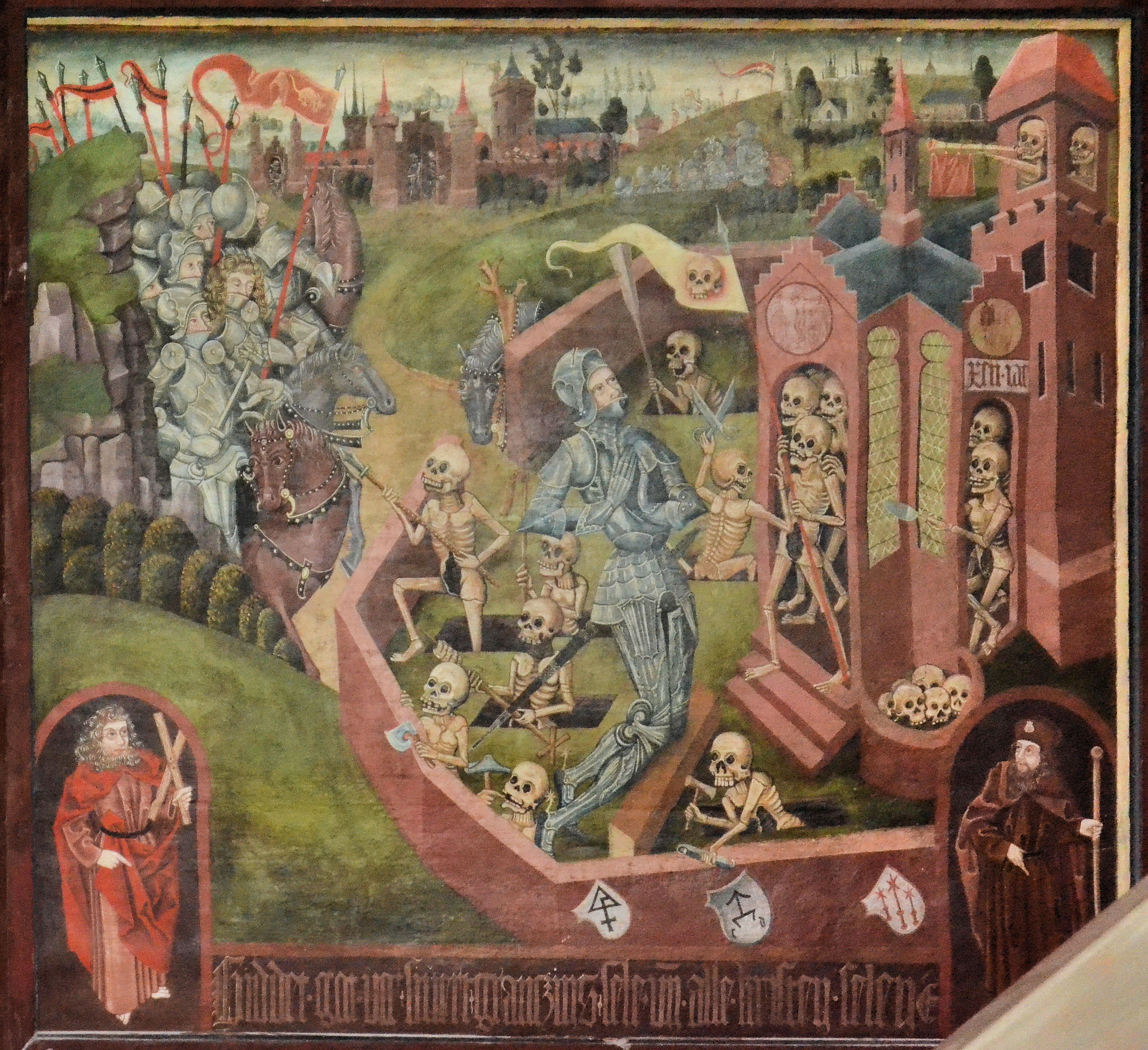 Votive painting donated by Siewert Granzinin 1492. Co-Cathedral Basilica of the Assumption, Kołobrzeg, Poland. A knight fleeing from creepers praying in a cemetery. The pour souls rising from their graves souls and helping to defeat the creepers. The scene reflects the medieval view of the care of the dead over the living within a poor soul cult.